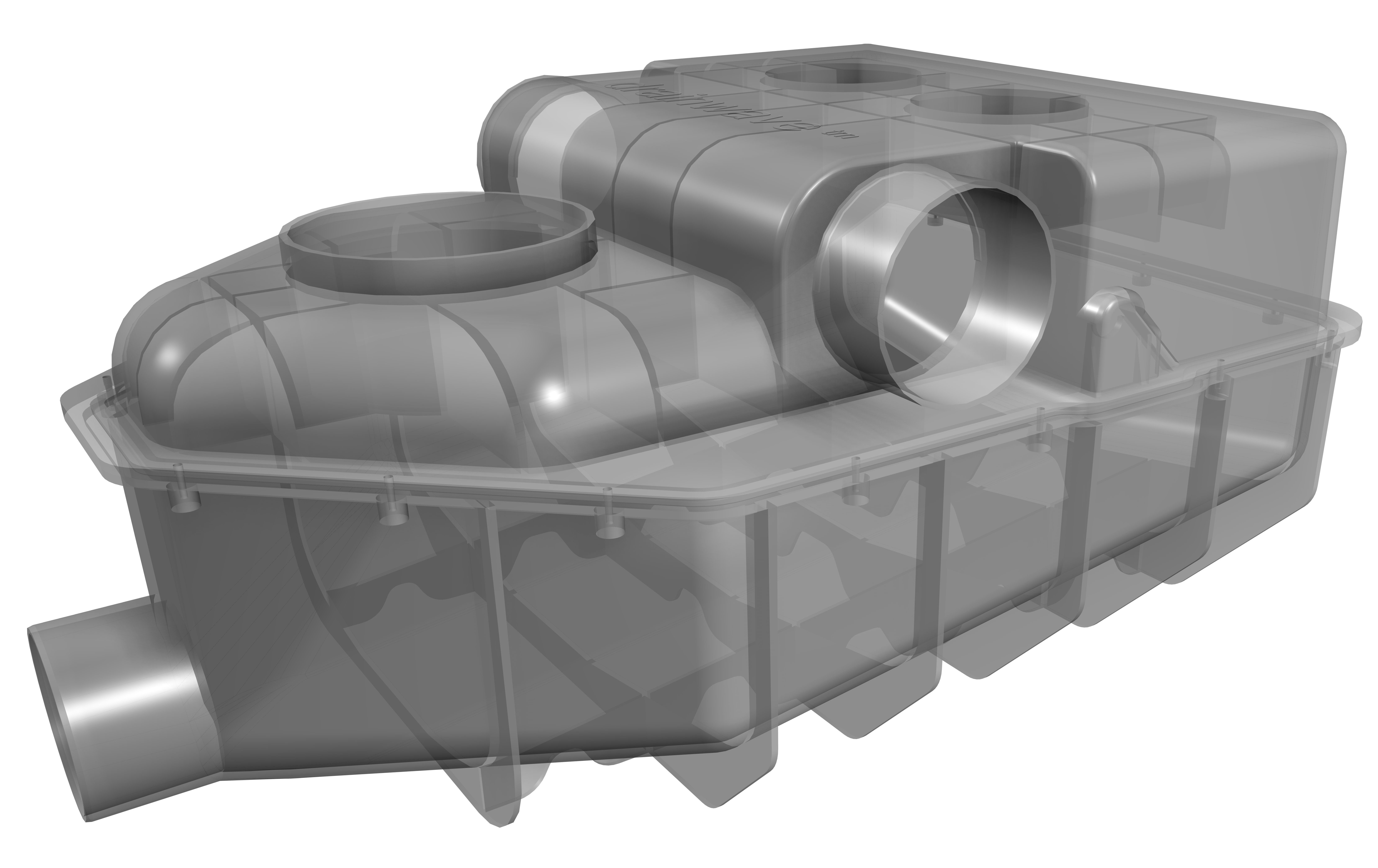 A 3d model showing the Drainwave sewer dosing unit.